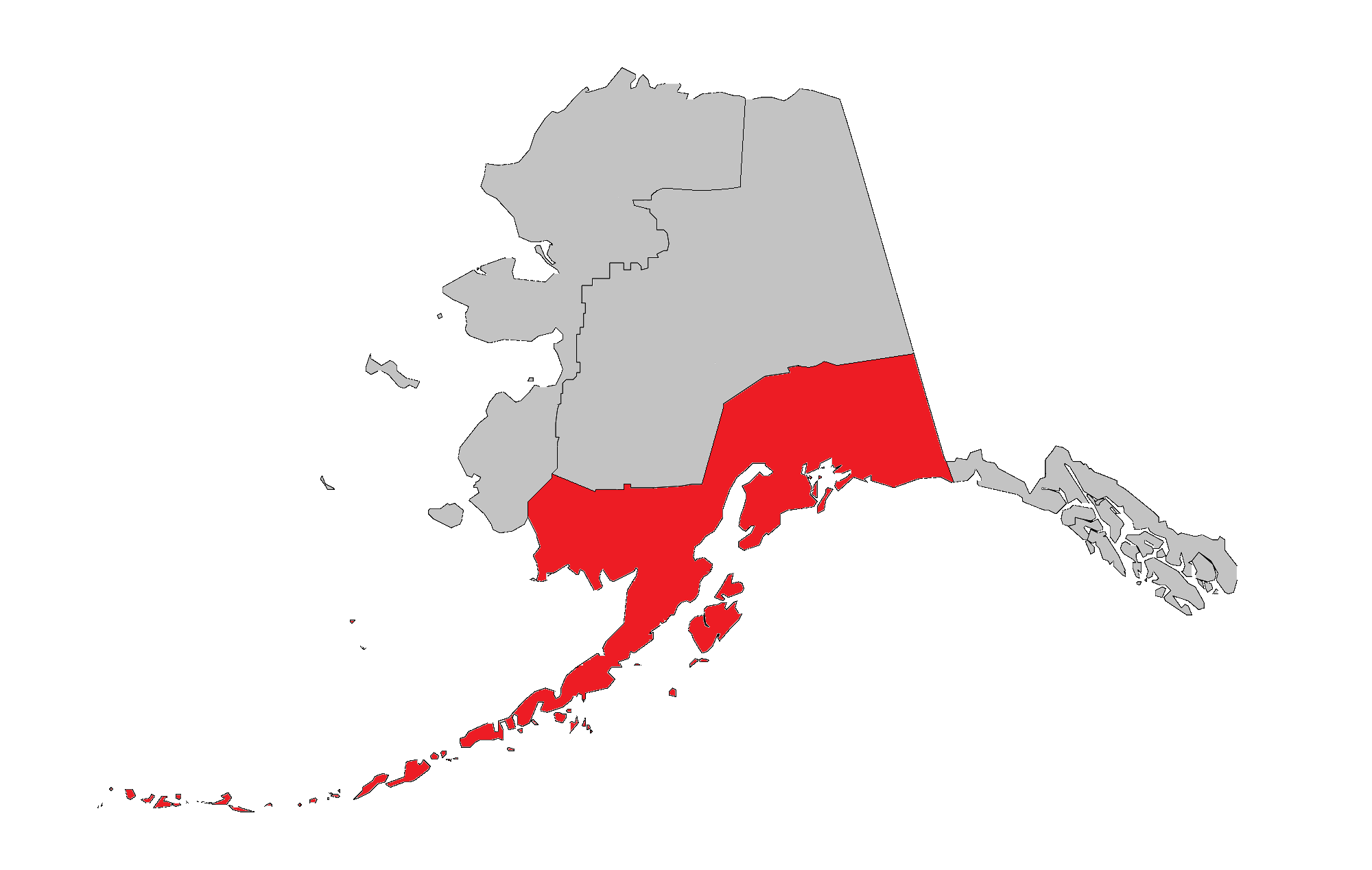 A map of the Third Judicial District (also refered to as Division #3) in red. Based on "Map of boroughs and census areas" av cmrivers.